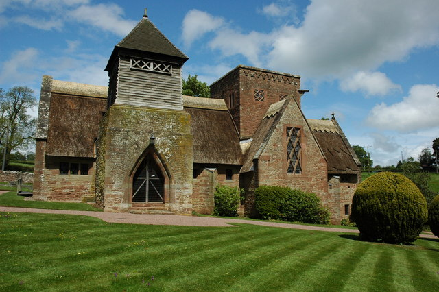 Brockhampton Church Brockhampton's All Saints church was designed by W R Letherby in 1901-02 for Alice Madeline Foster in memory of her parents. The church was consecrated by the Bishop of Hereford on 16 October 1902. Pevsner describes it as '...one of the most convincing and most impressive churches of its date in any country.' Here the church is viewed from the south.